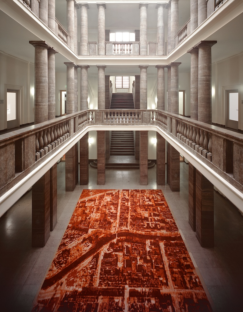 Red Carpet, 2003, carpet, handwoven, 5m x 10m